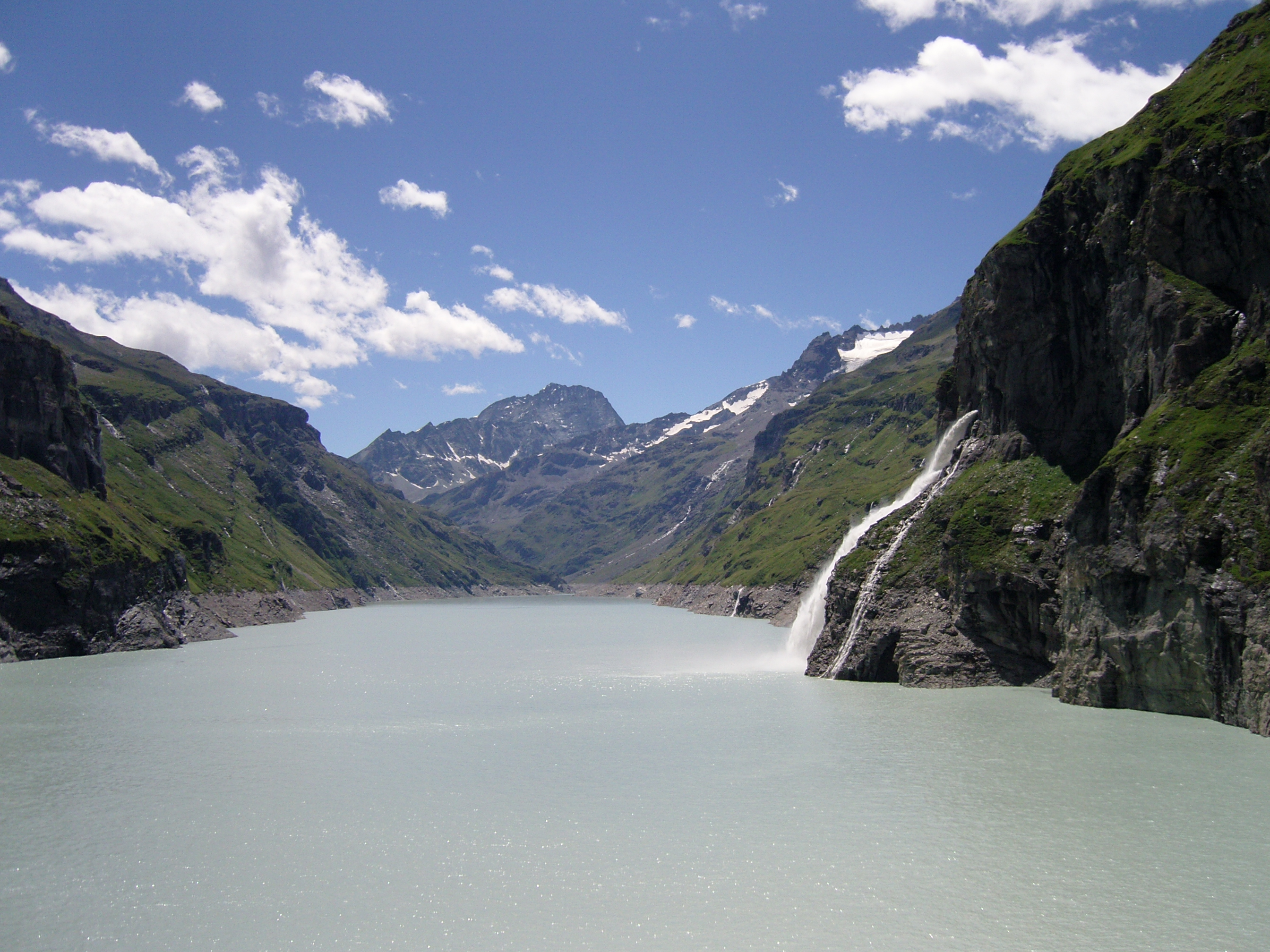 Lac de Mauvoisin (Switzerland) in July 2008, as seen from the Mauvoisin dam.